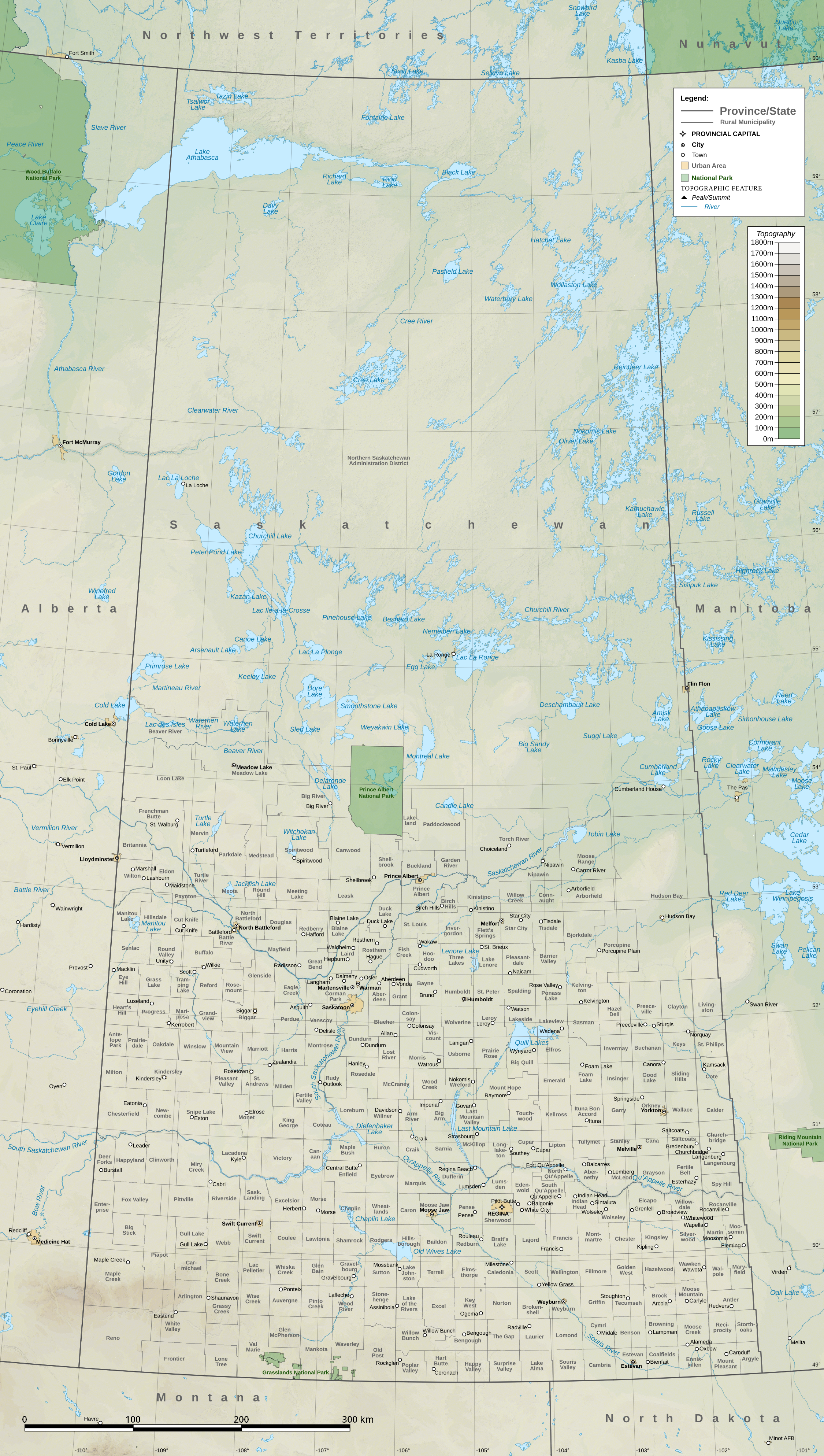 A topographic map of the province of Saskatchewan, Canada, with cities, towns, rural municipalities, and natural features.